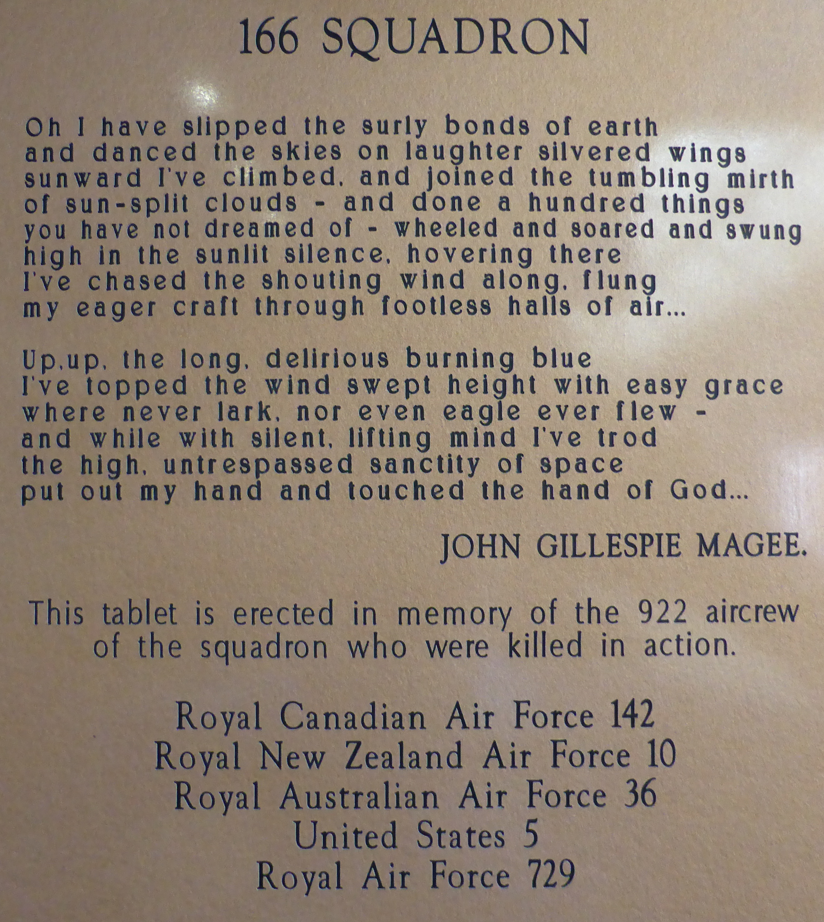 Memorial plaque